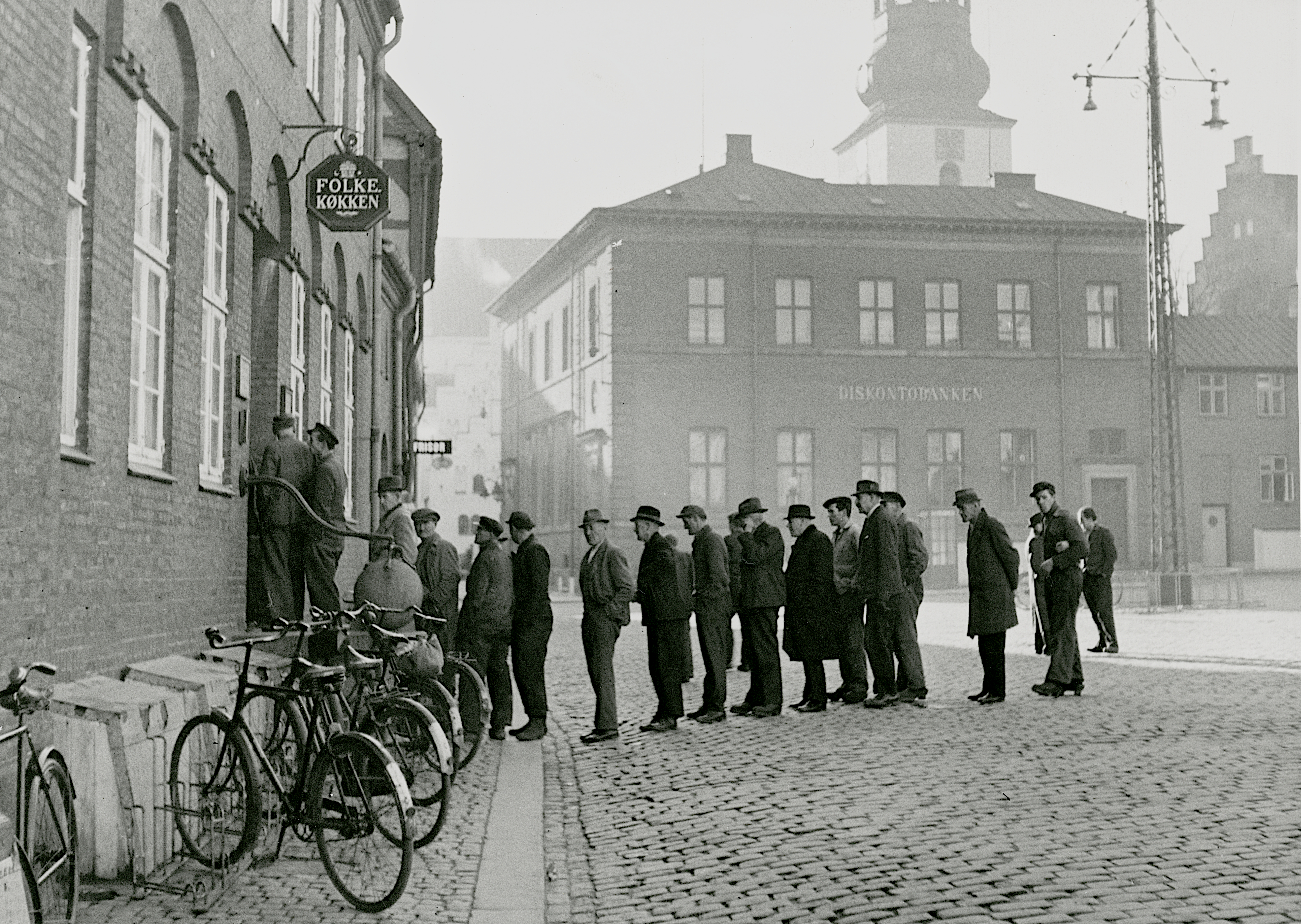 More images from The Museum of Danish Resistance